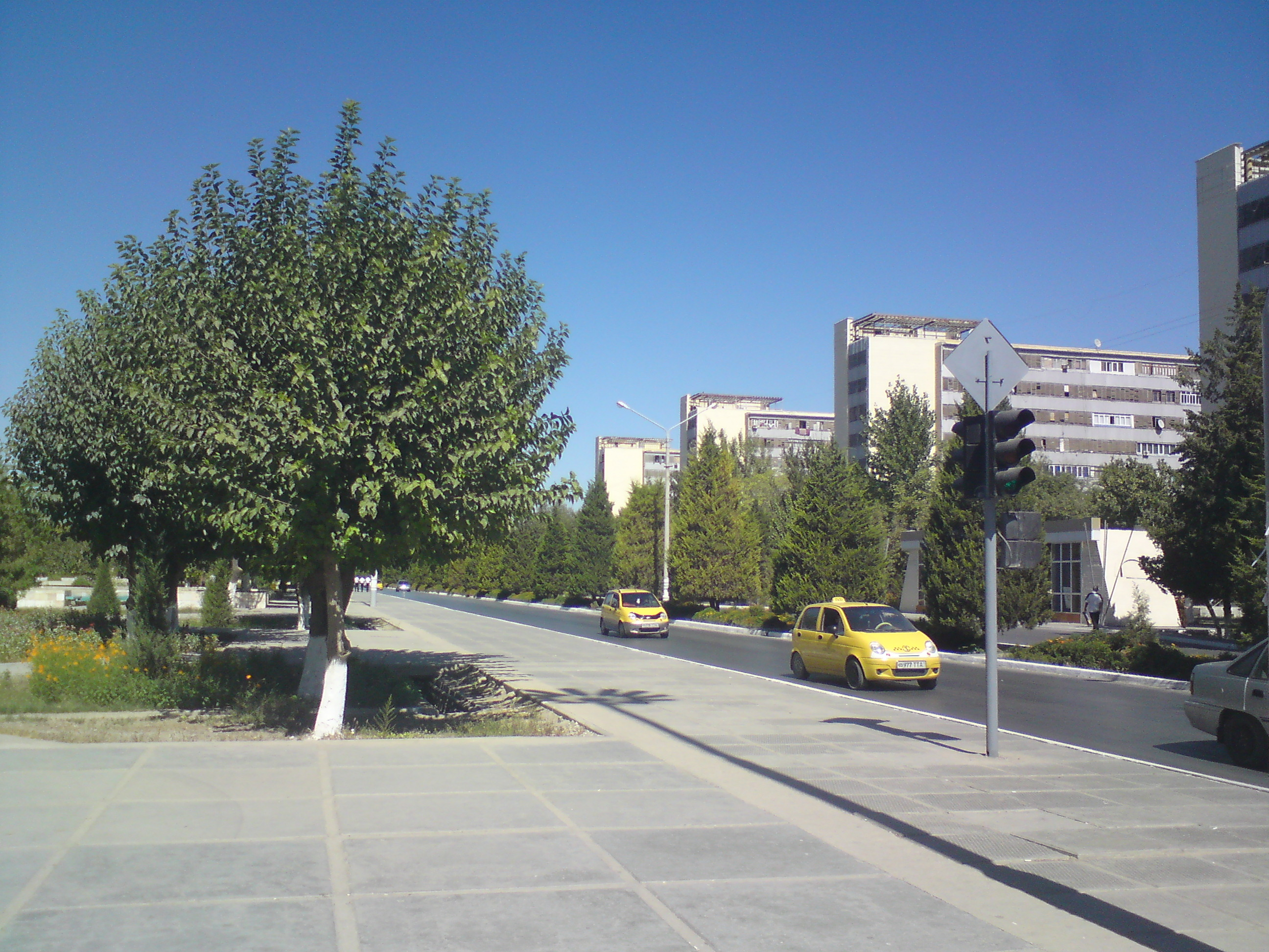 Main street of Navoyi Khalklar Dustligi (Friendship of Nations) Road in Uzbekistan